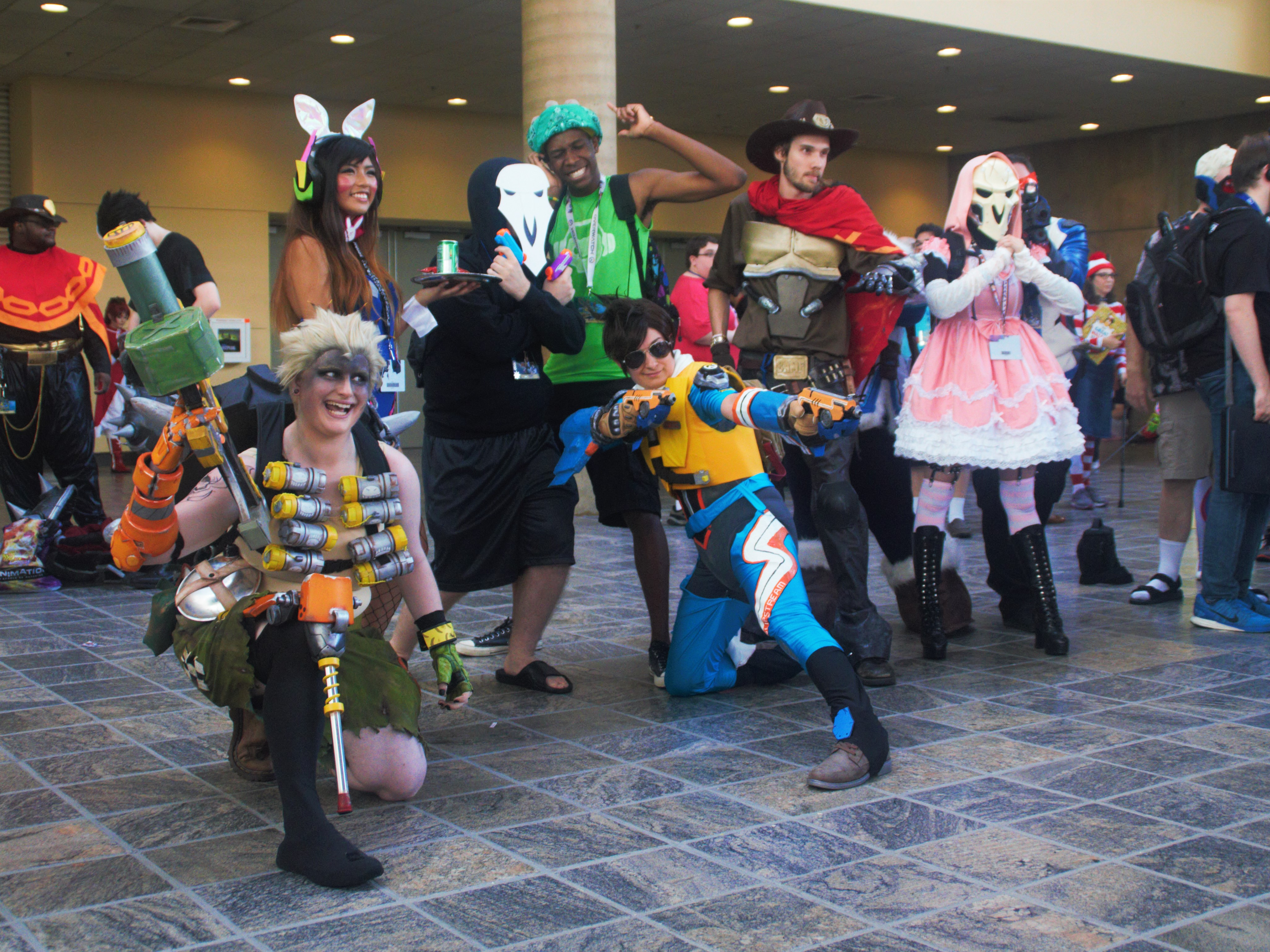 Cosplay from Otakon 2016